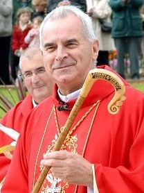 A photo of the Cardinal Keith Michael Patrick O'Brien.